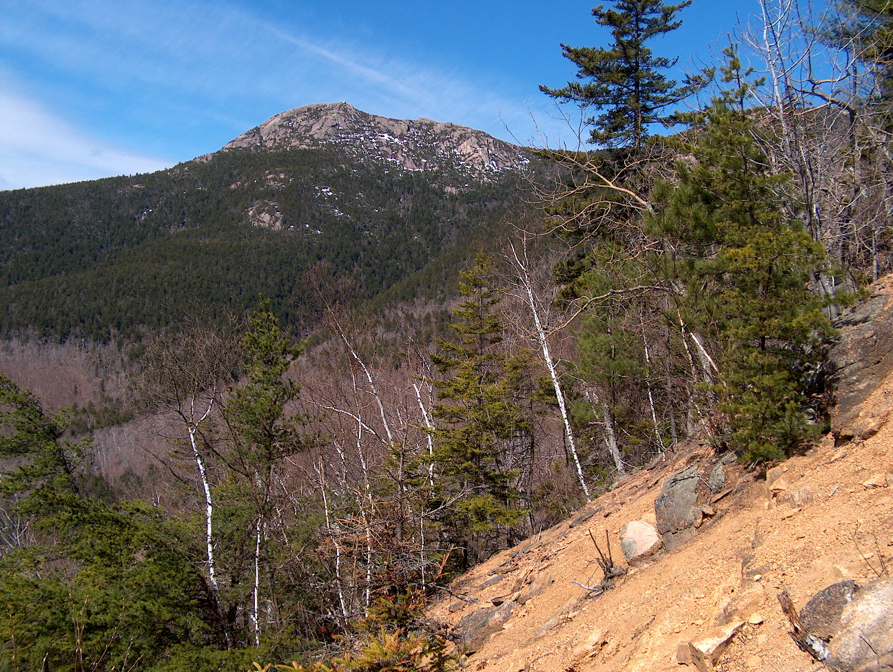 Mount Chocorua in New Hampshire. Photo by Ken Gallager.